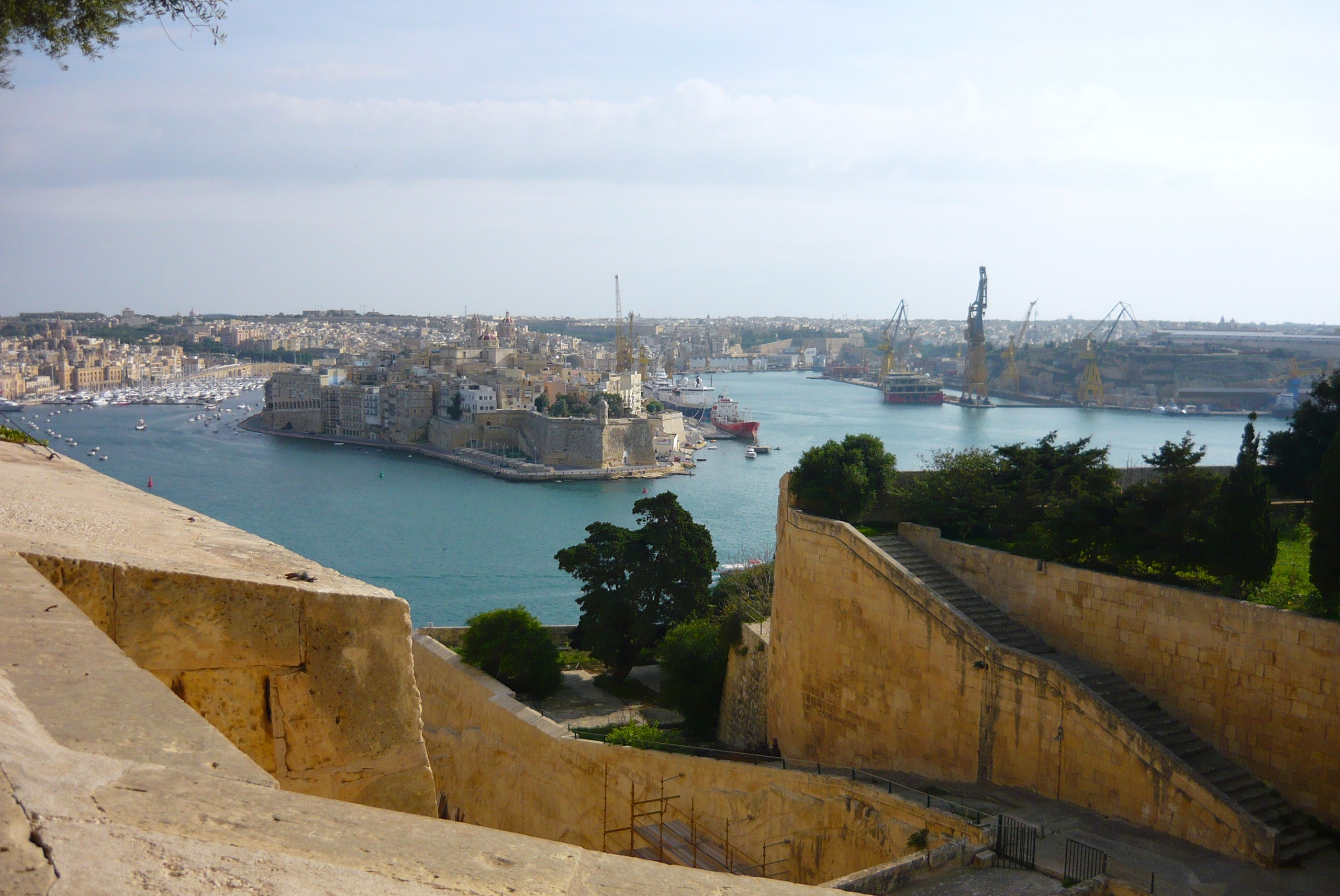 View from Valetta to the three cities